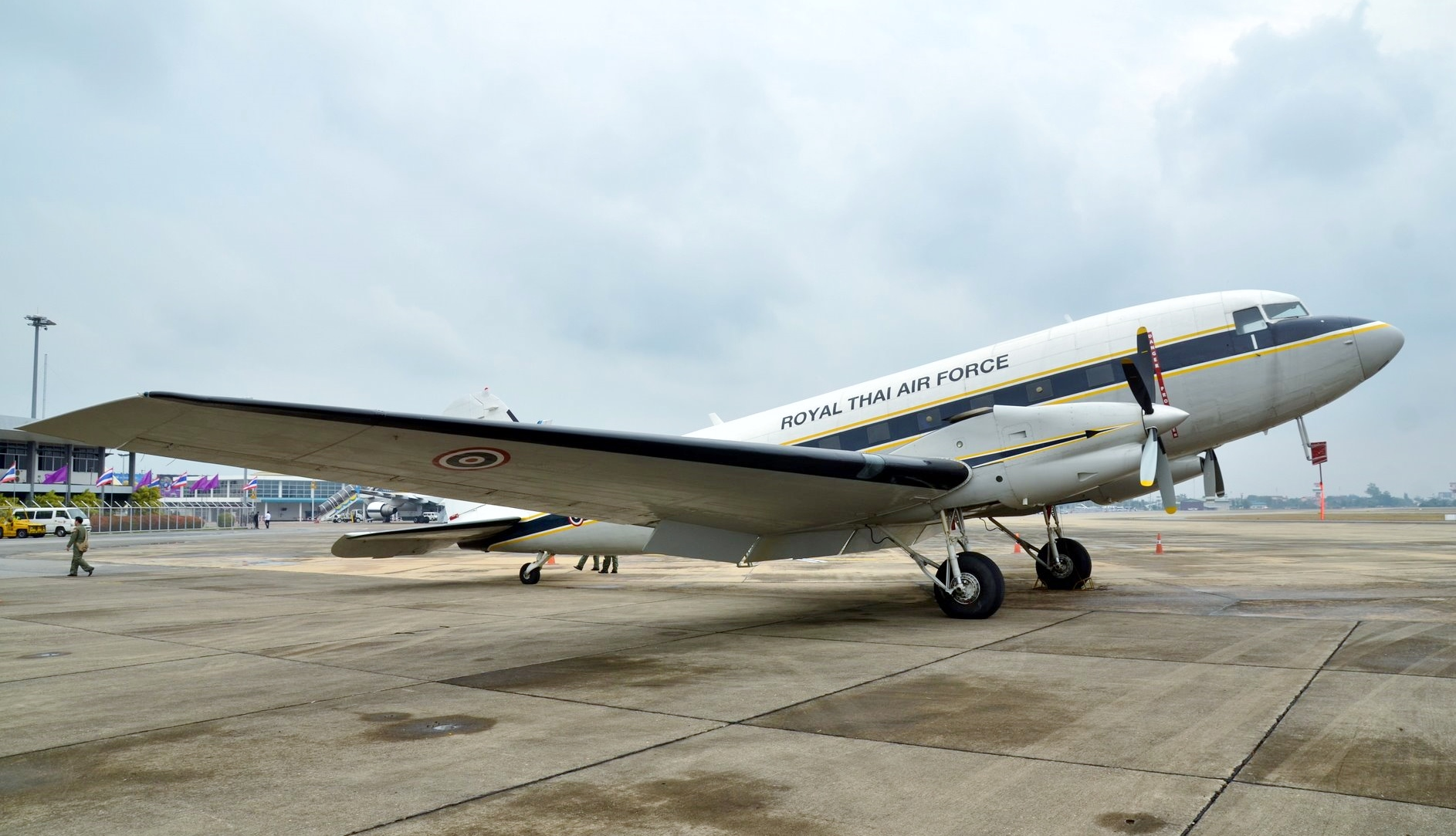 A Royal Thai Air Force Basler BT-67 (a retrofitted Douglas DC-3) during Children's Day at the RTAF base Chiang Mai.